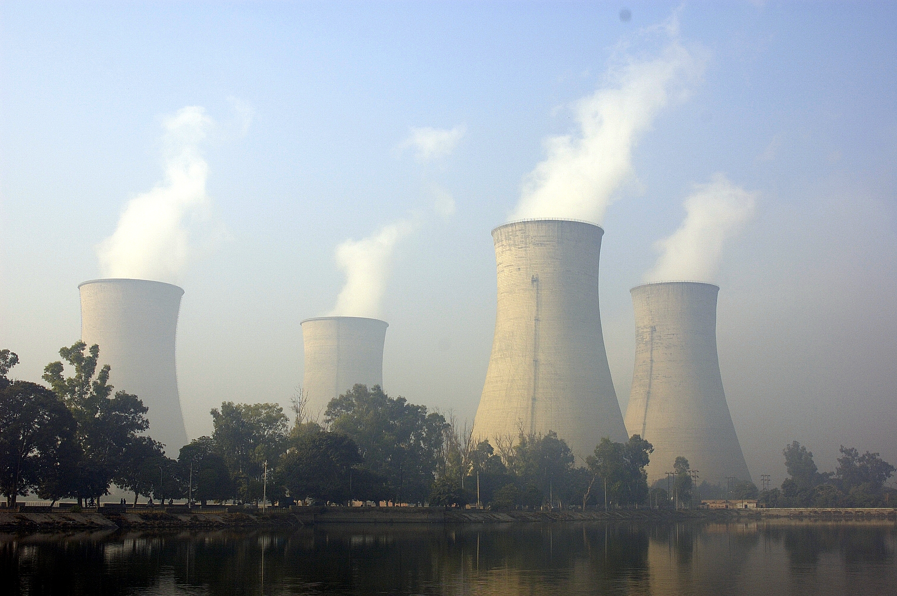 Electricity generation power plant coolers